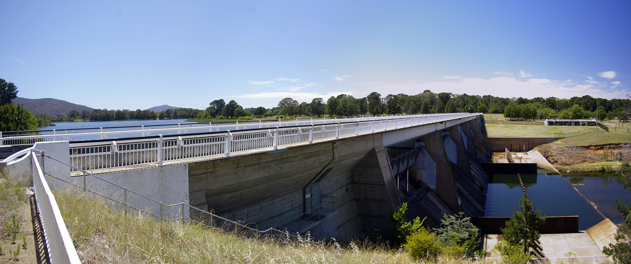 Scrivener Dam photographed near the National Zoo & Aquarium in Yarralumla, Australian Capital Territory.